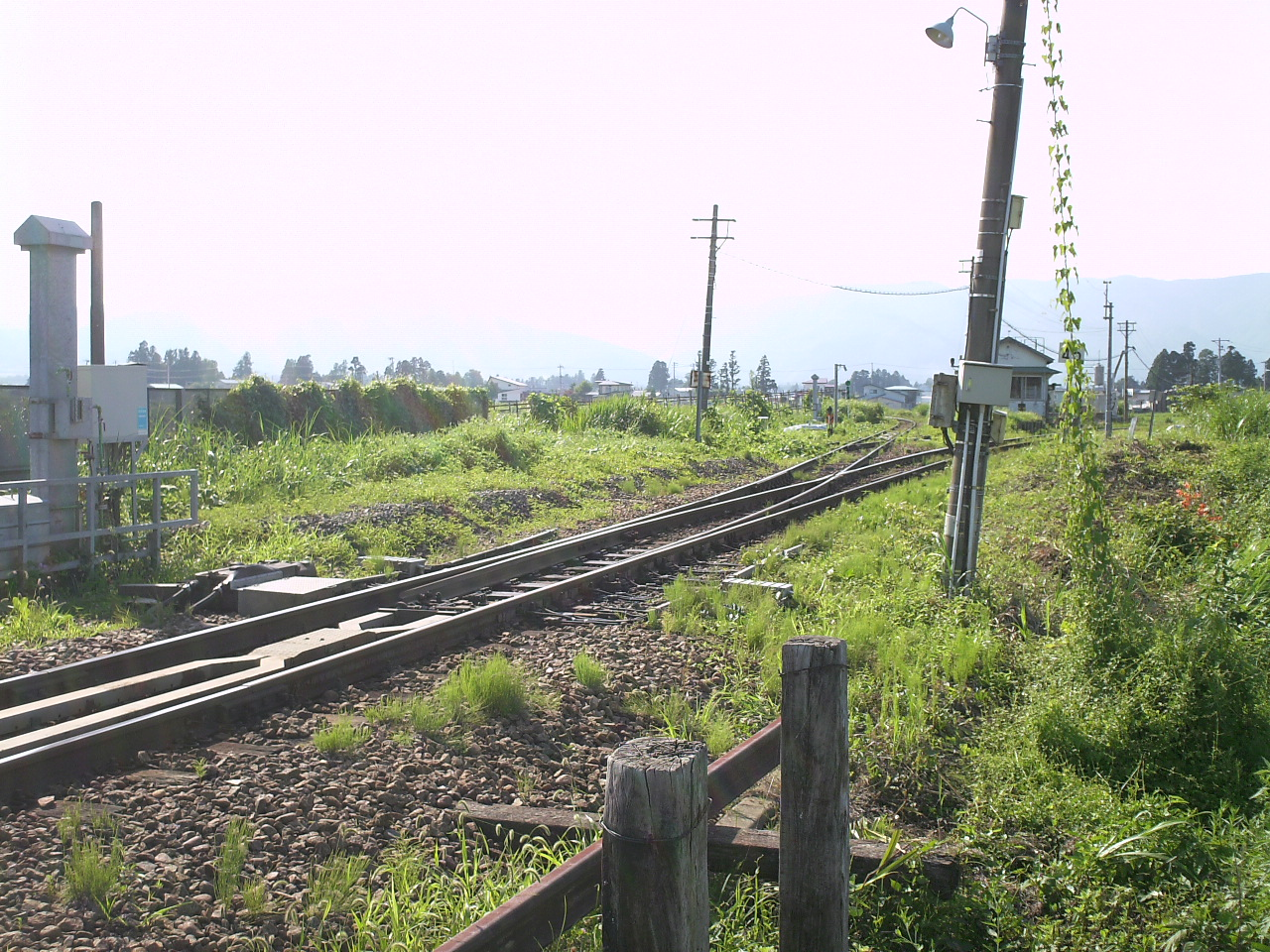 A part of Imaizumi Station; once Shirakawa Signal Station.